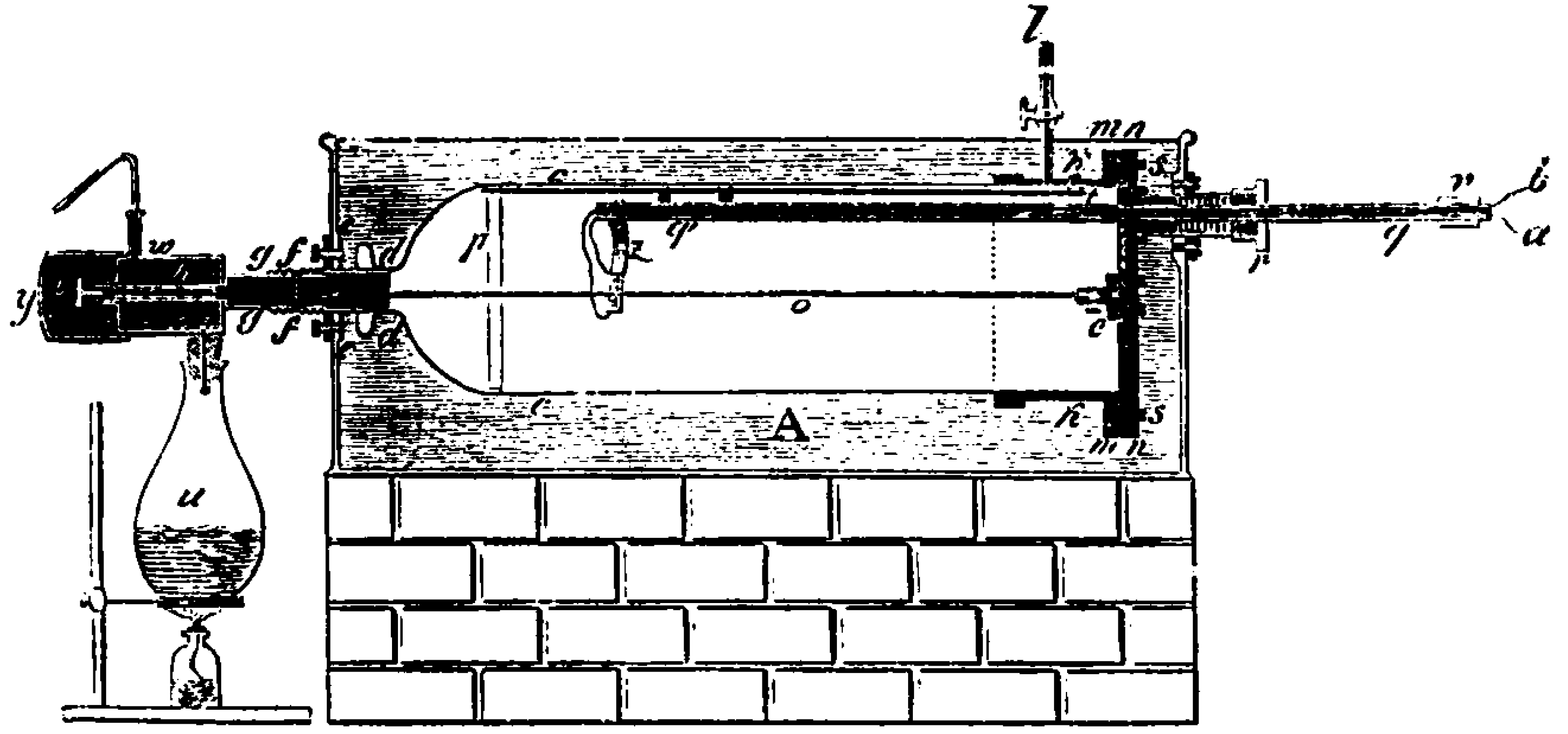 Apparatus from the original 1853 paper in which the Wiedemann-Franz Law was first established